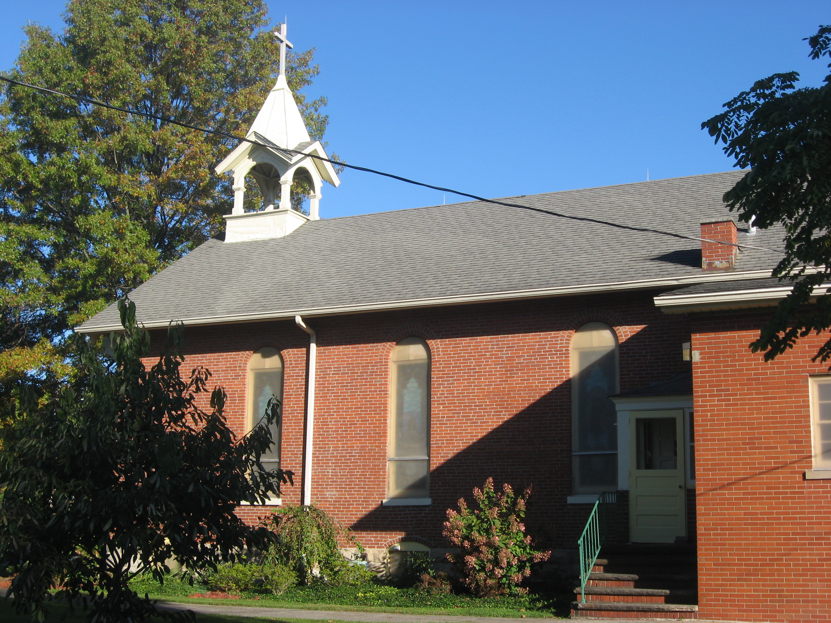 Southern side of Old St. Patrick's Catholic Church, located at 512 N. Main Street (State Route 58) in Wellington, Ohio, United States. Built in 1875, it is listed on the National Register of Historic Places.